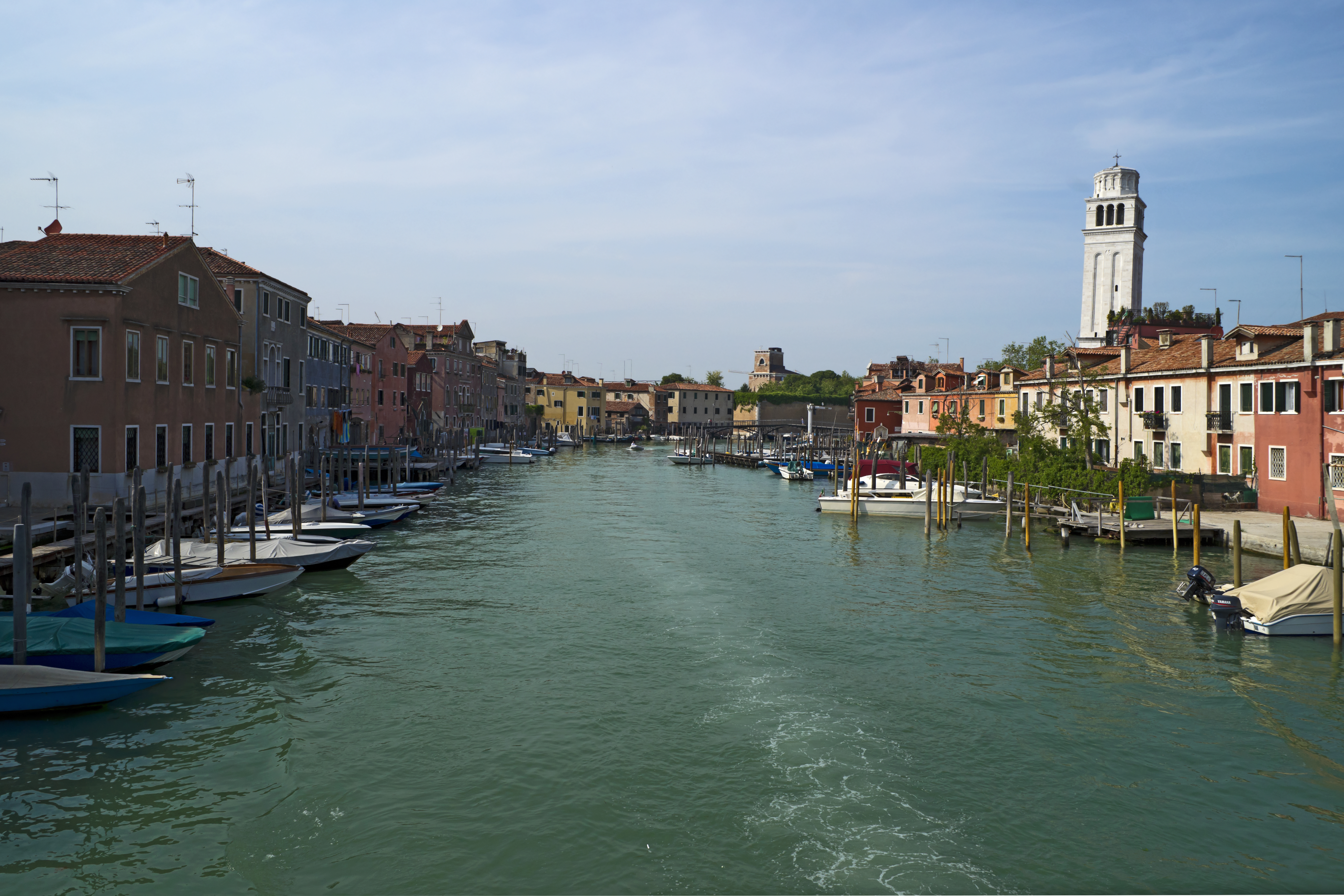 Canale di San Pietro in Venice